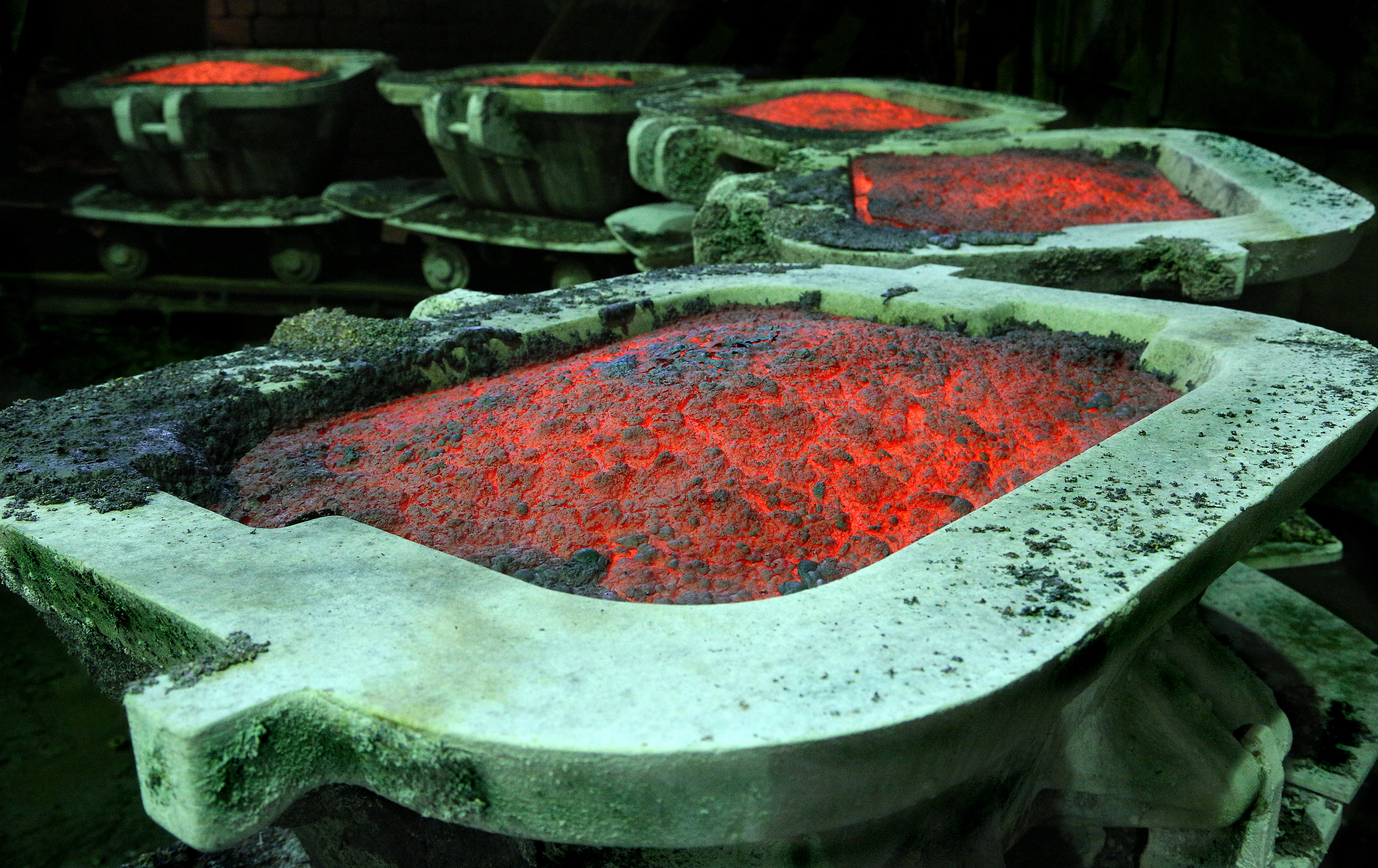 blister copper